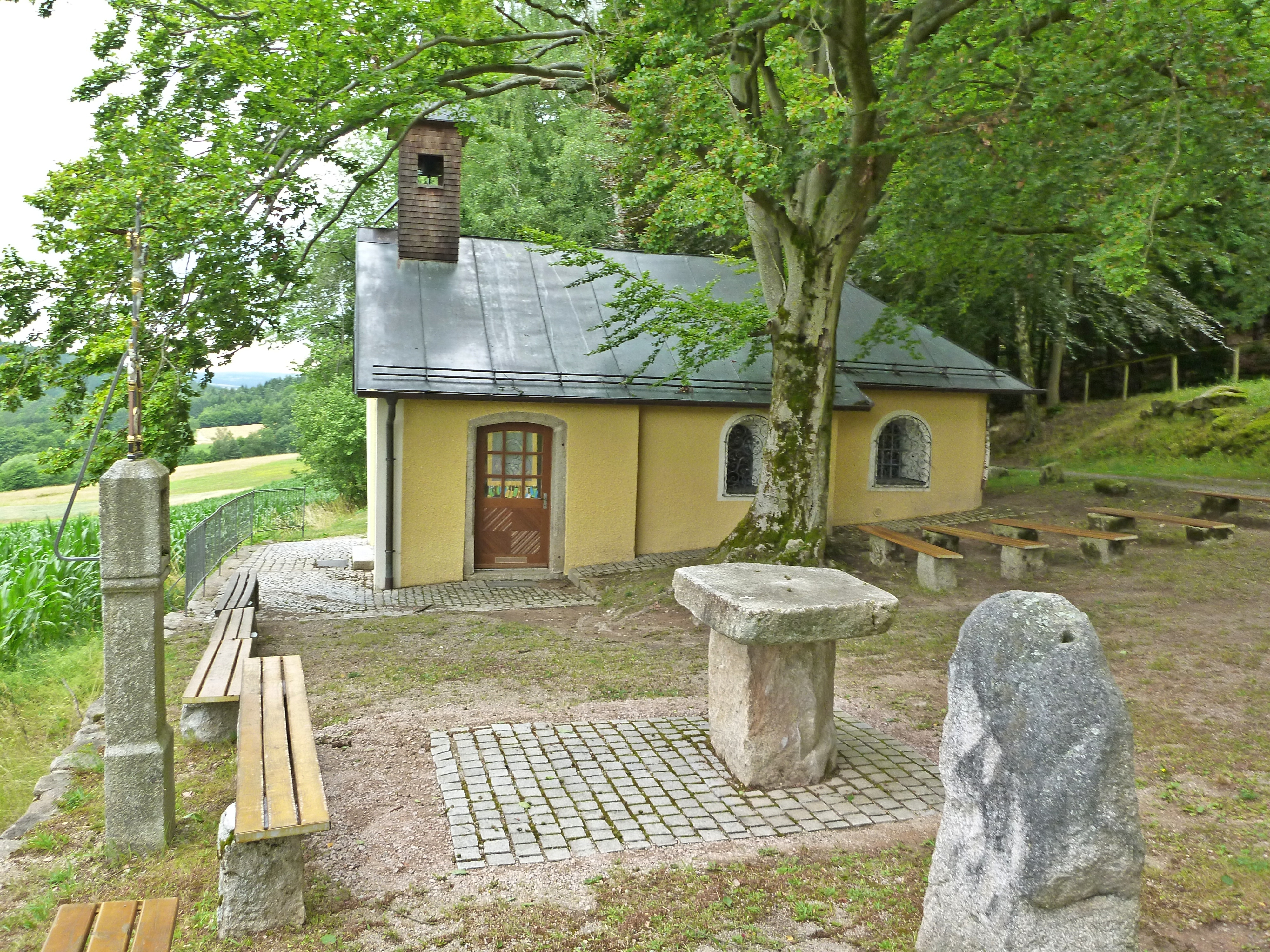 Wallfahrtskapelle Schönbuchen next to Dautersdorf